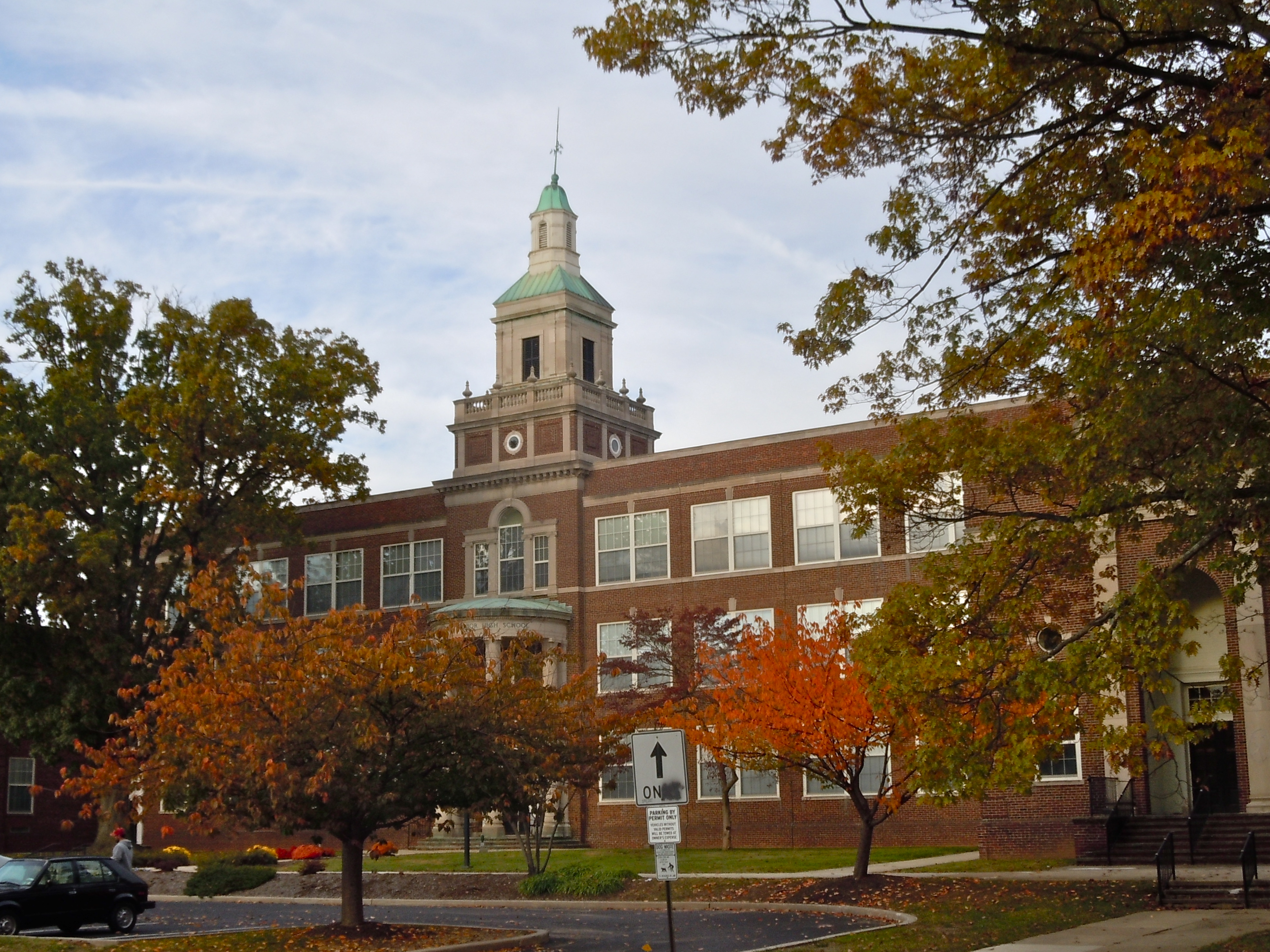 David Rittenhouse Junior High School on the NRHP since June 28, 1996. At 1705 Locust Street (other side is Pine Street), Norristown, Montgomery County, Pennnsylvania.